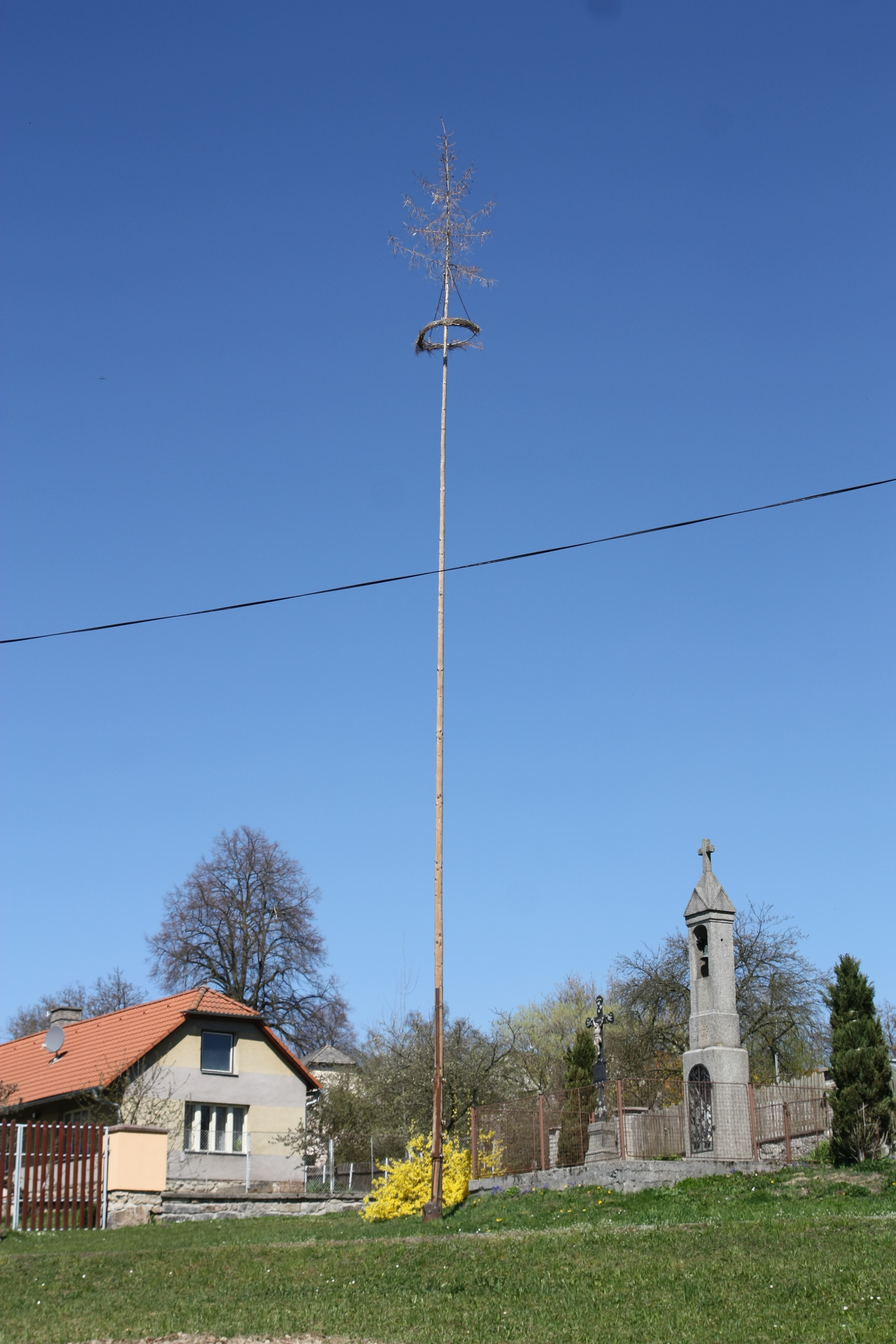 Belfry in municipality Svoříž, Tábor District, South Bohemian Region, Czechia